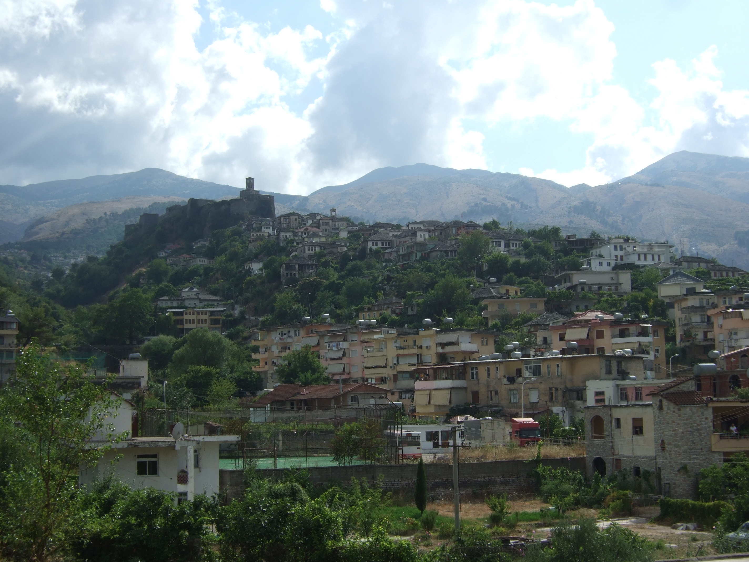 Gjirokastra - castle in front of Gjerë mountains